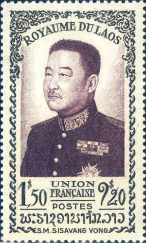 Postage stamps depicting Sisavang Vong (or Sisavangvong) (14 July 1885 - 29 October 1959), King of the Luang Phrabang and later Kingdom of Laos from 28 April 1904 until his death on 20 October 1959.